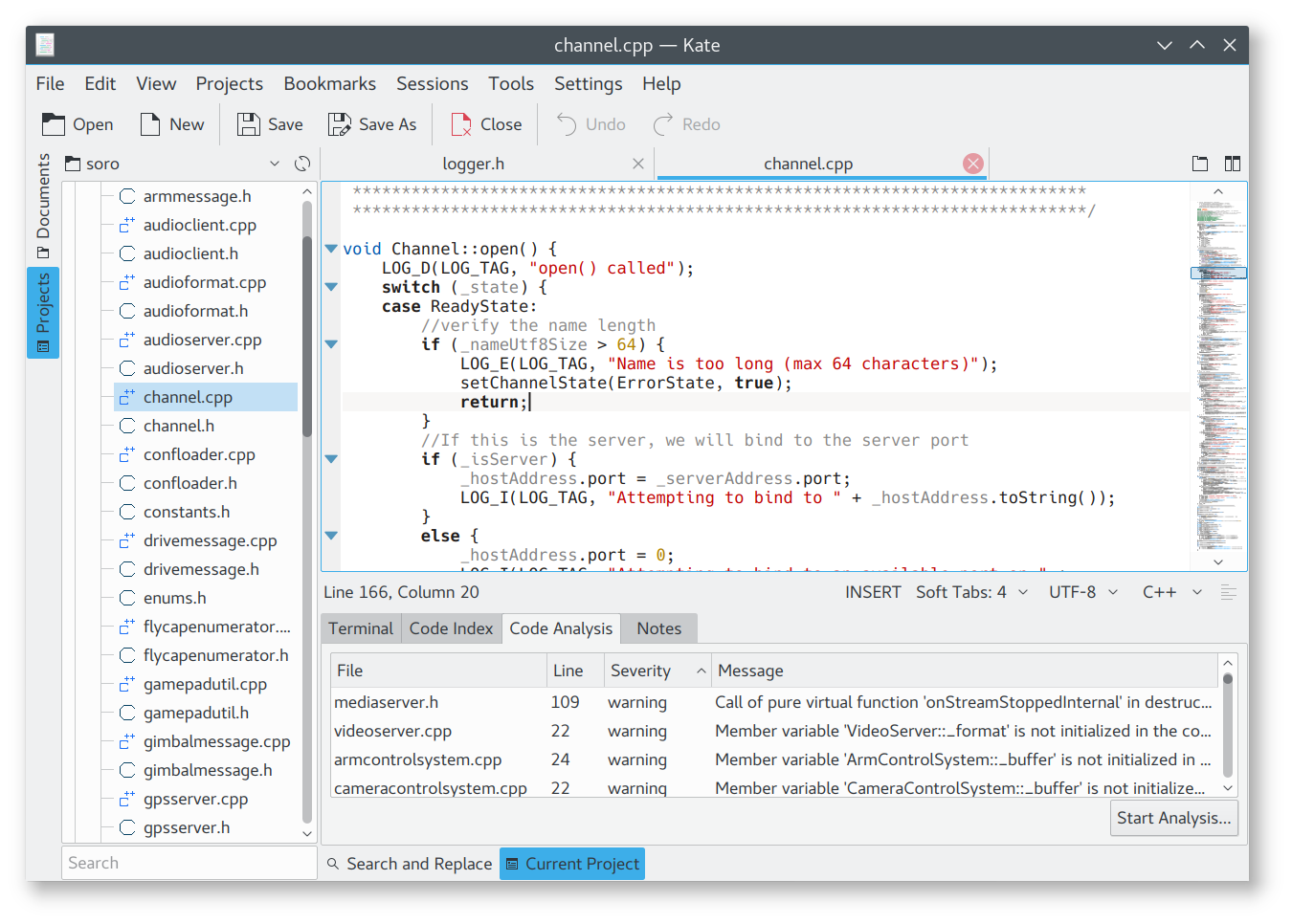 Kate 16.12 running under Plasma 5 and editing a C++ file, showing the project explorer and code analysis panes.